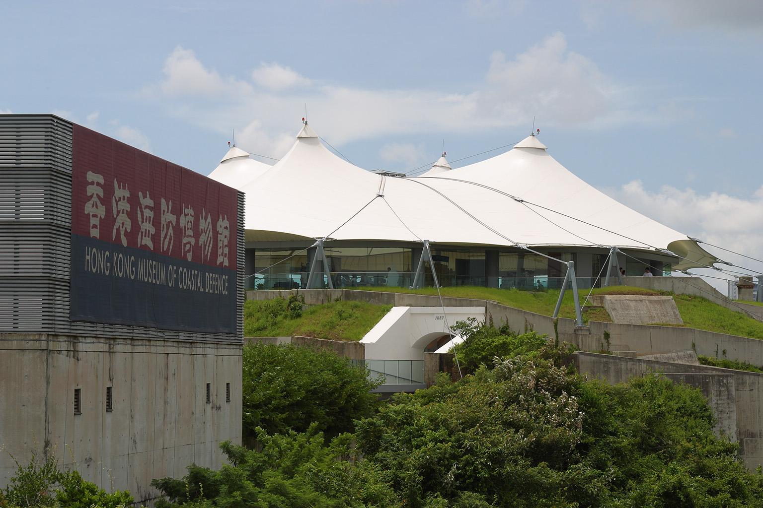 Hong Kong Museum of Coastal Defence (pix by DFANZ)